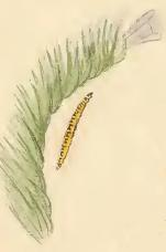 Stainton’s Natural History of the Tineina (1855–1873): Ethmia bipunctella